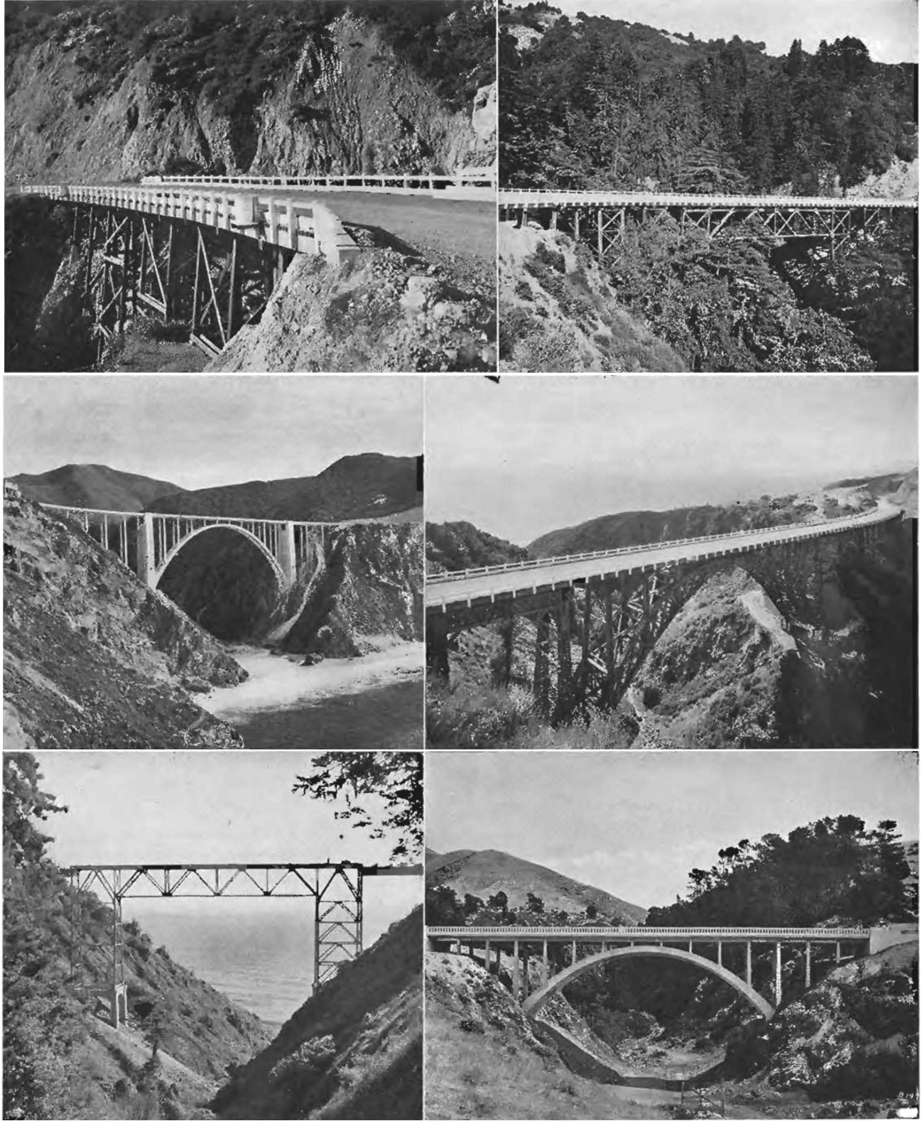 Pictorial story of the bridges of the Carmel·San Simeon Highway. Six of the twenty·nine completed structures on the scenic route. Upper left-Lime Creek Bridge. Upper right-Torre Creek Bridge. Center left-Bixby Arch, Center right-Dolan Creek structure, Lower left-Bridge over Burns Creek. Lower right-Mal Paso Bridge.